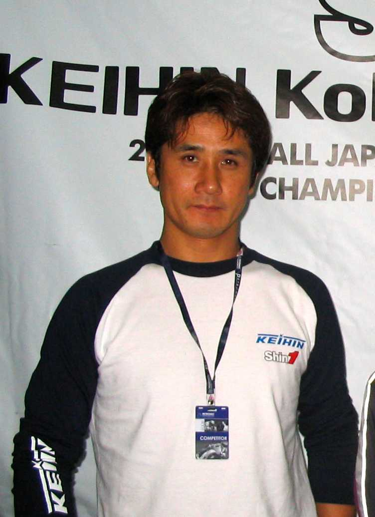 Shinichi Itoh at Zhuhai International Circuit for the FIM Asian Grand Prix.